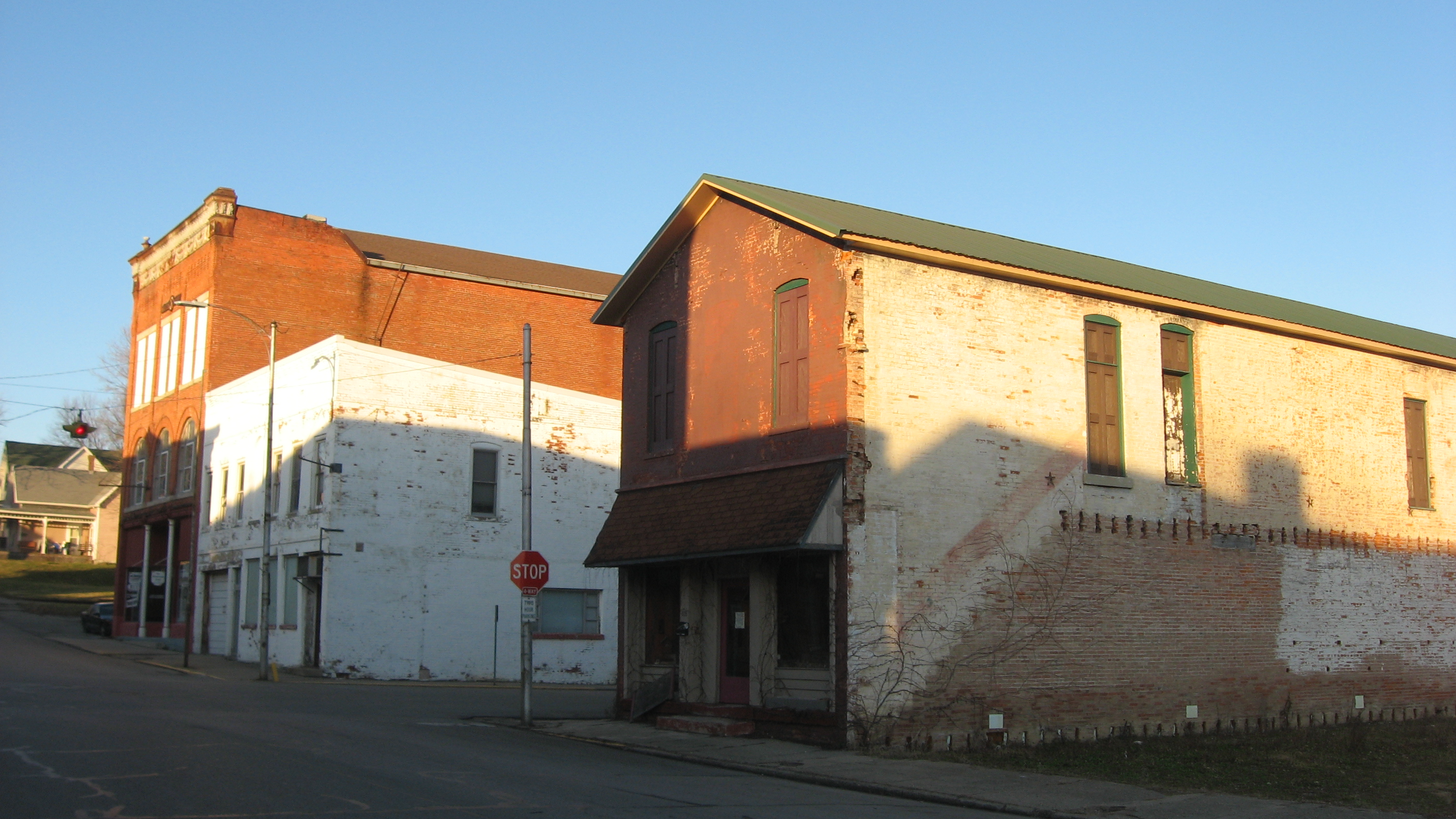 Three buildings on the eastern side of Fifth Street on both sides of the Locust Street intersection in Middletown, Indiana, United States. They are part of the Middletown Commercial Historic District, a historic district that is listed on the National Register of Historic Places. From right to left, they were built in 1868, 1870, and 1896.